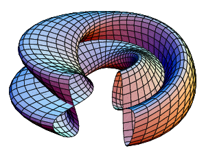 Cut-away version of a figure-eight immersion of a Klein bottle. Made with Mathematica. For the non-cut-away version see Image:KleinBottle-Figure8-01.png.